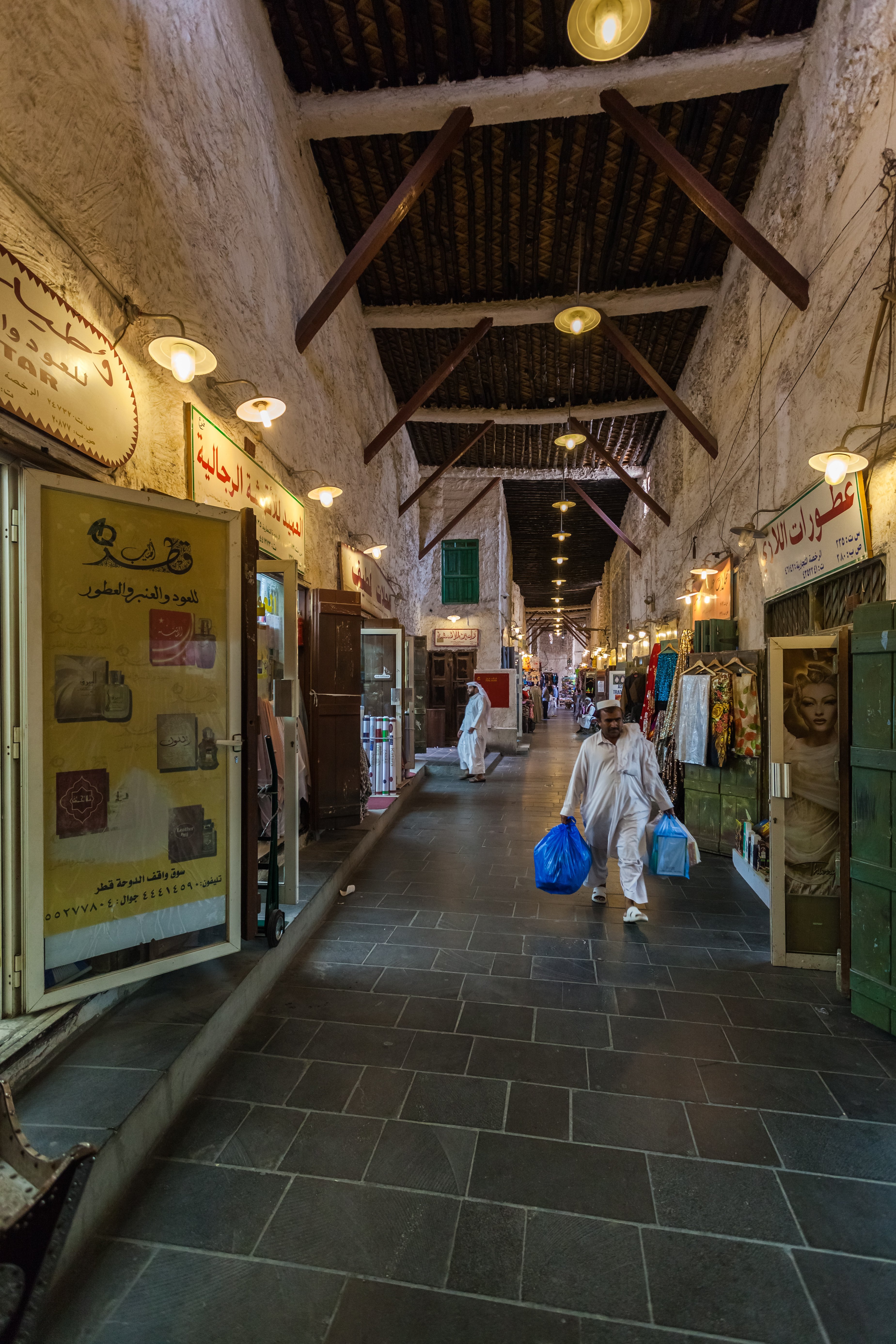 Souq Waqif, Doha, Qatar